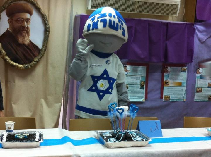 Symbol of the Israeli produce-"Mozarelli".